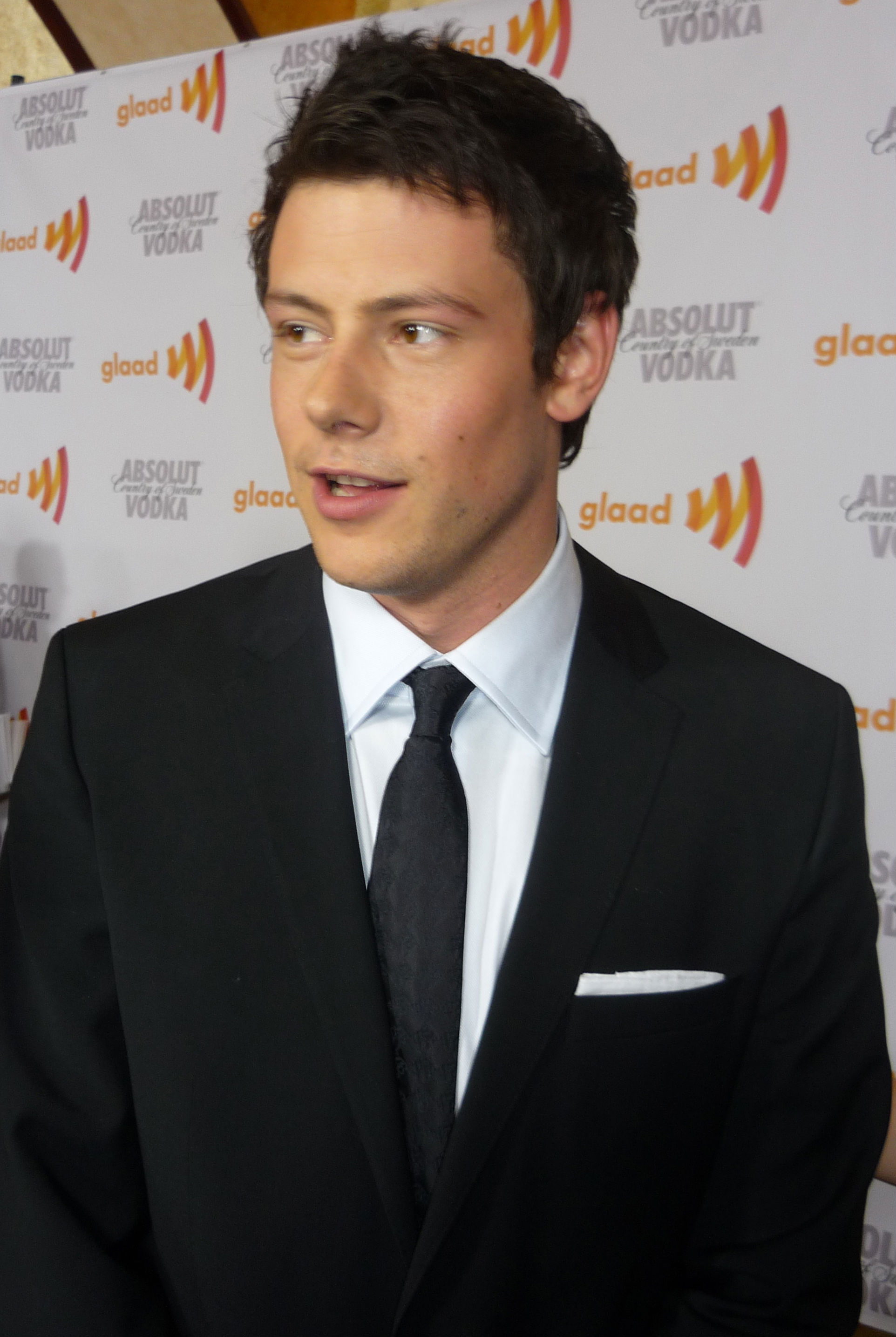 Cory Monteith at the GLAAD Awards on April 17, 2010